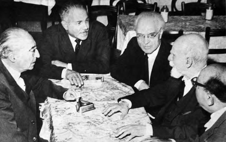 Italian philosopher Rodolfo Mondolfo and friends: M. H. Alberti, Oberdán Caletti, Luis Di Filippo, Mondolfo and Boleslao Lewin. Buenos Aires, 1960s.